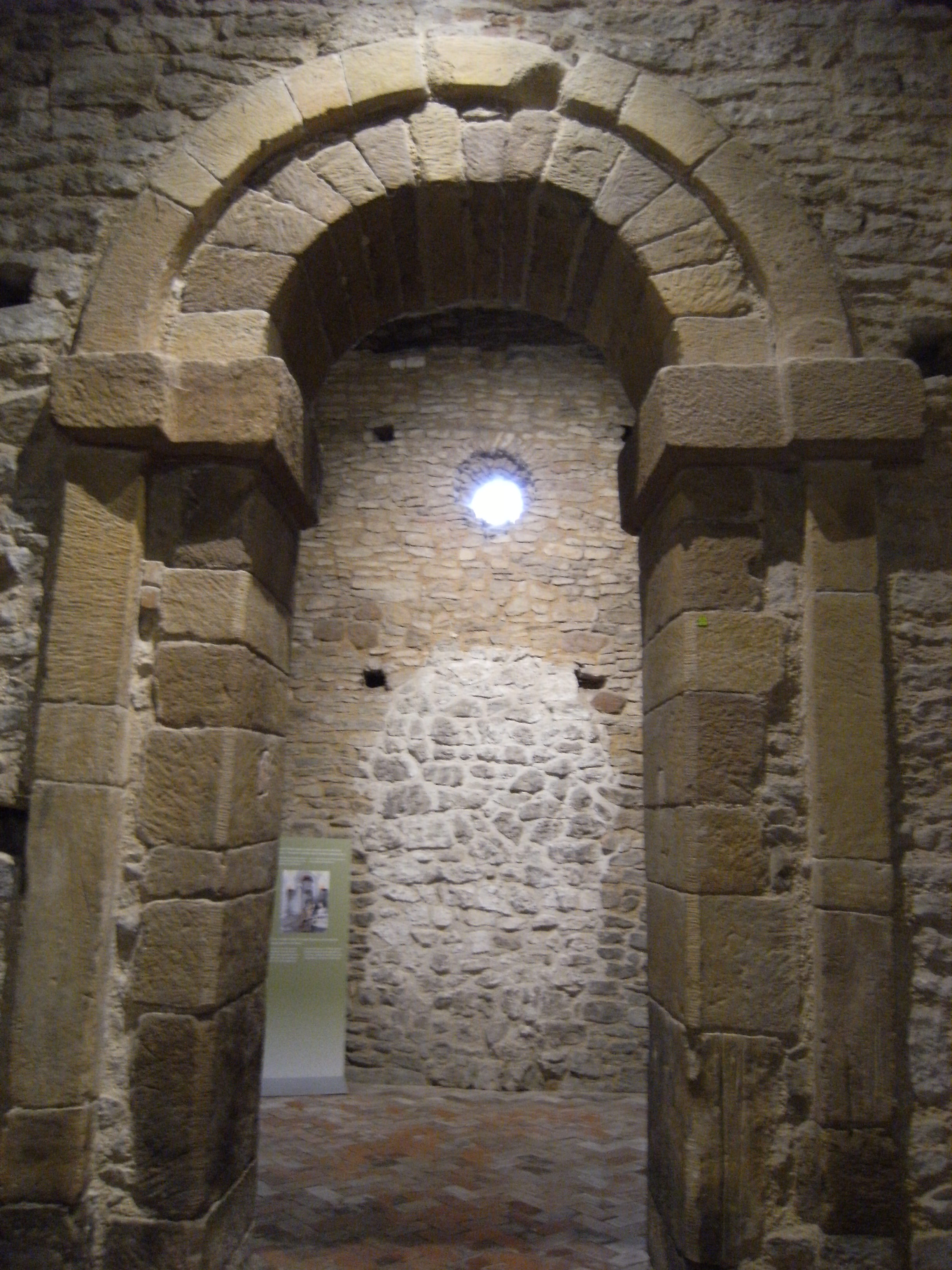 Internal view from the tower of St Peter's Church, Barton-upon-Humber, west to the baptistery